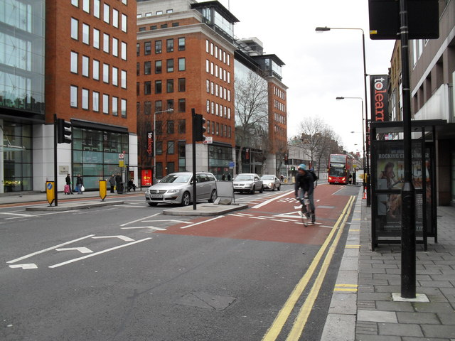 Cyclist in Theobald's Road